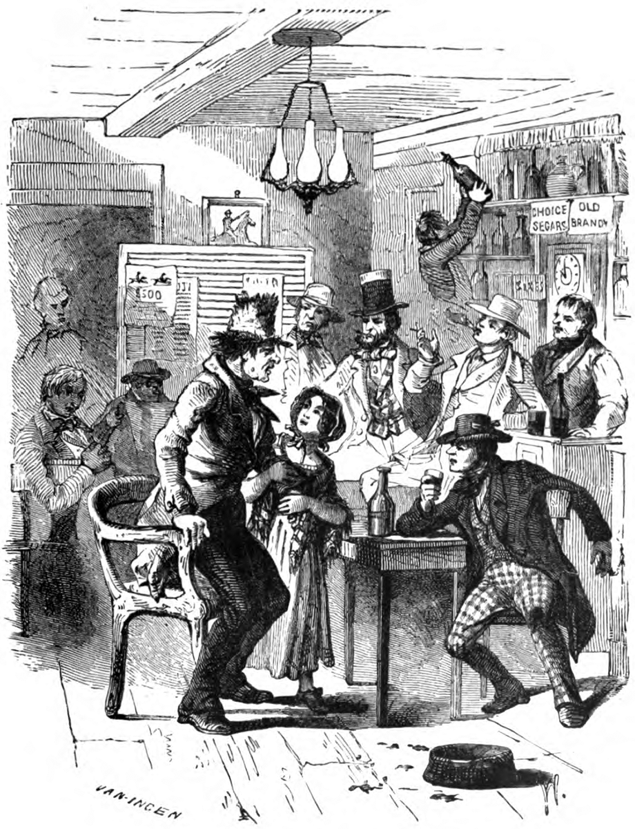 "Come, Father! Won't You Come Home?" from the 1882 Porter and Coates printing of Ten Nights in a Bar-room